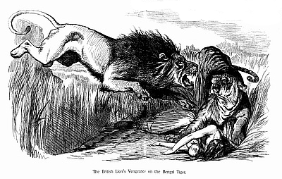 British Lion attacks Bengal Tiger